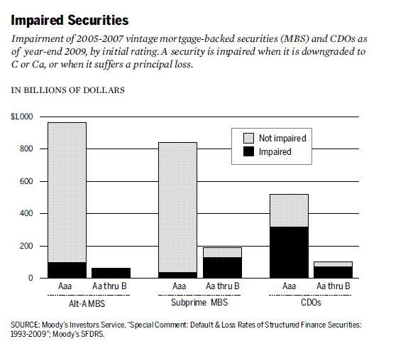 Graphs illustrating how many mortgage-backed securities and CDOs issued in 2005-7 were "impaired" (downgraded to junk or having lost principal) by the end of 2009